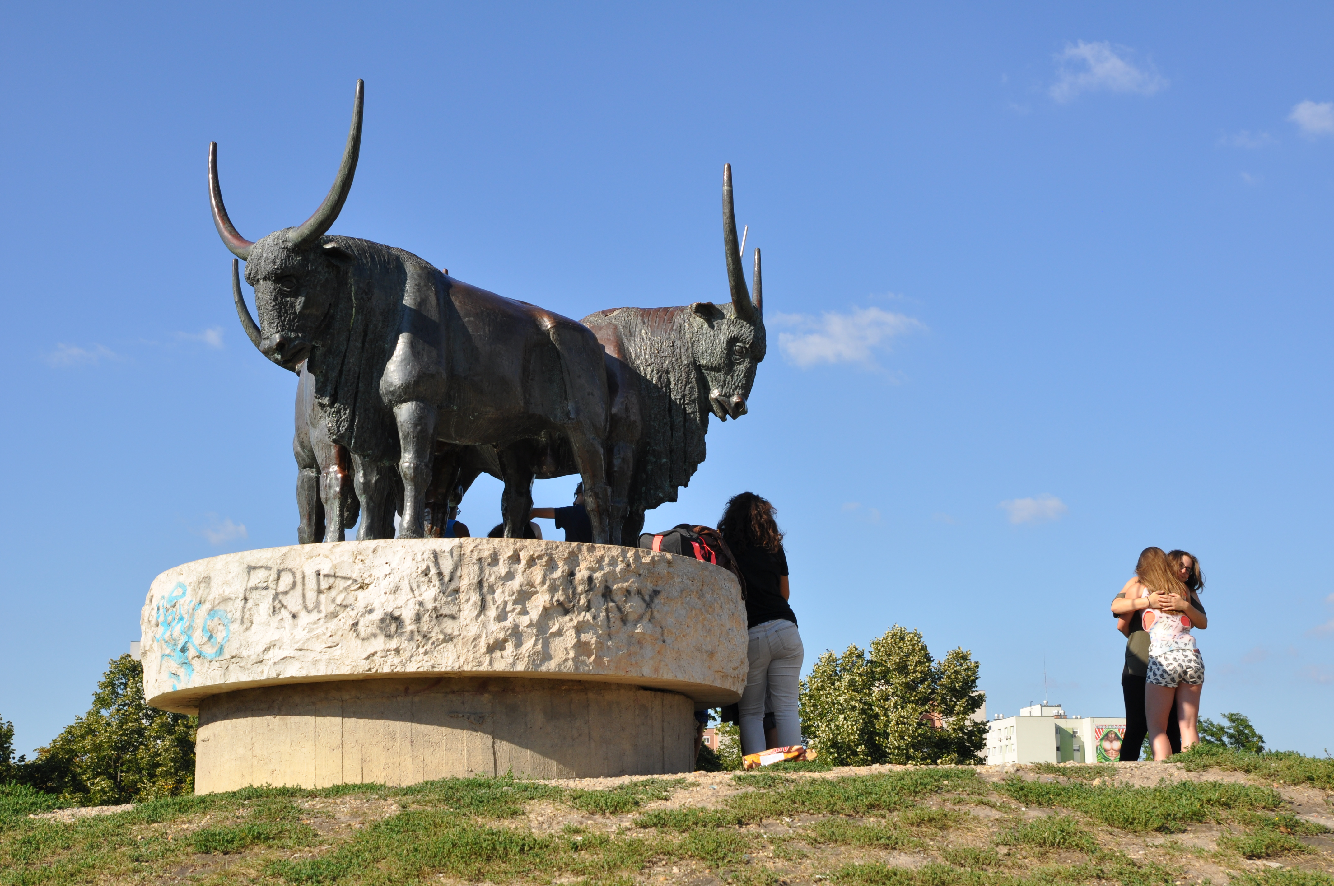 Budapest, Bikás park